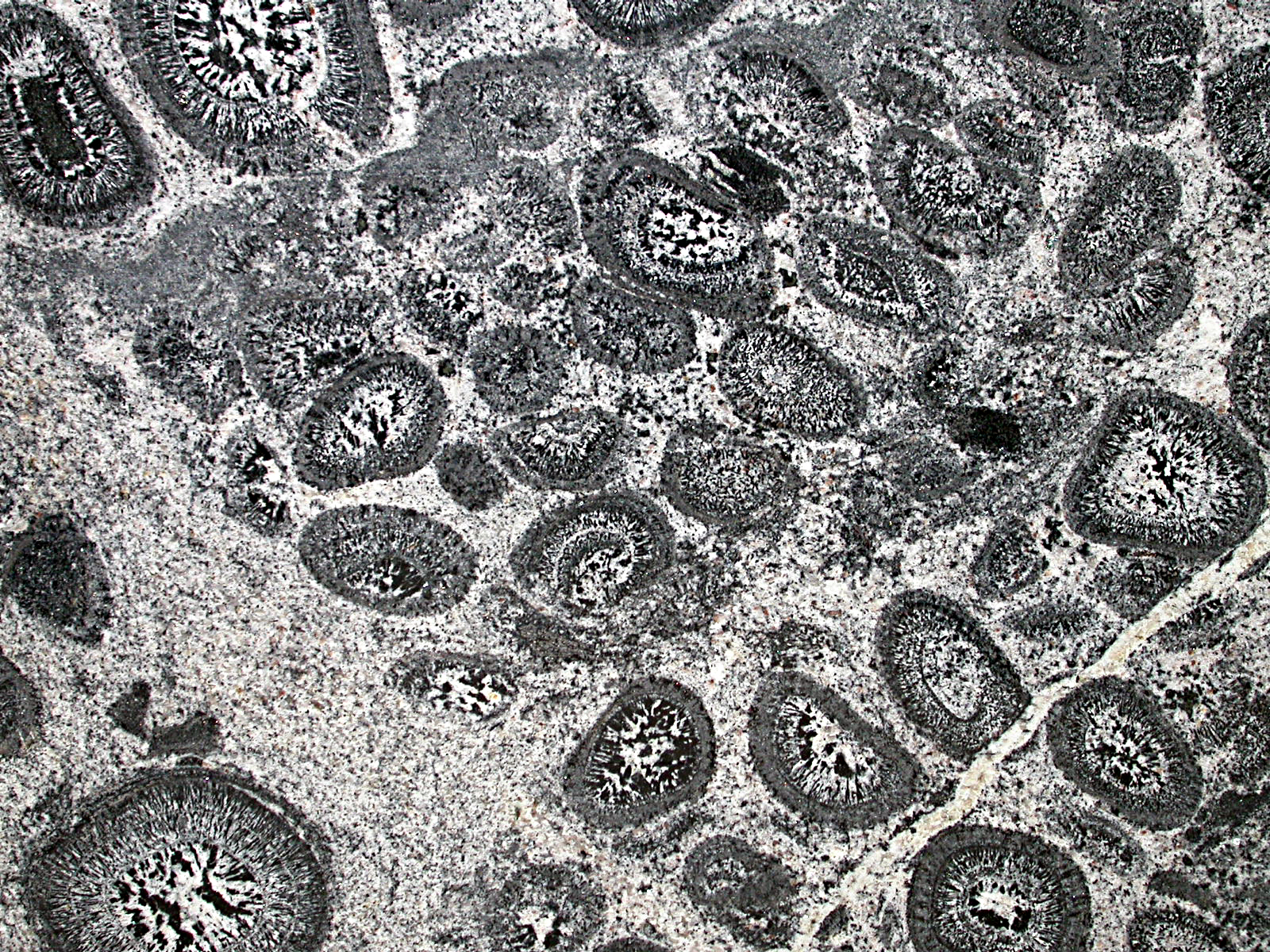 Mount Magnet orbicular granite — Australia "I've been to the airport, but still don't know how it forms."